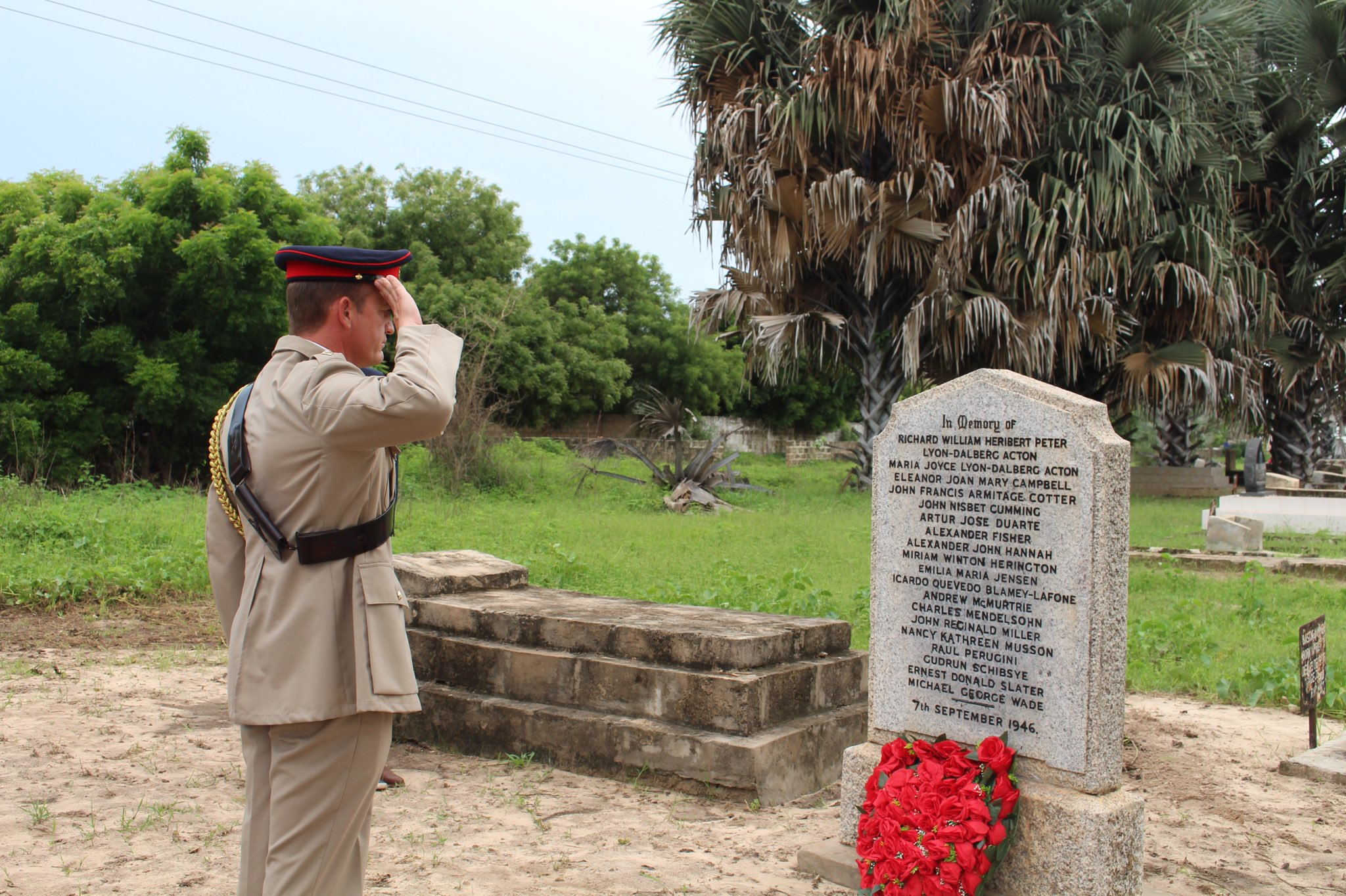 2019-09-07: Touching ceremony this morning to remember all those who lost their lives in 7 Sept 1946 air crash. British South American Airways en route to Buenos Aires crashed shortly after take-off from Bathurst (Banjul)